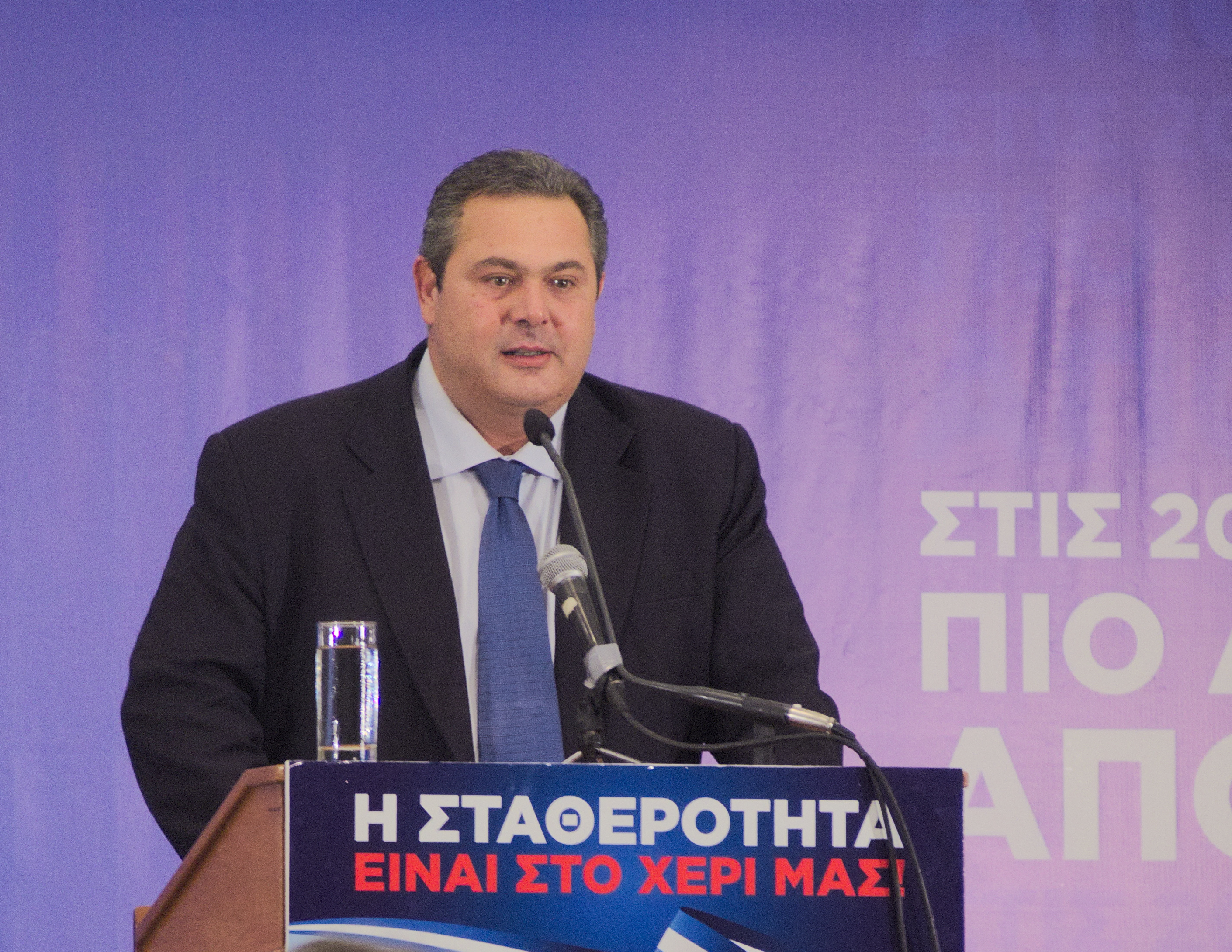 Panos Kammenos during his campaign speech at Heraklion for the 20th September 2015 elections.